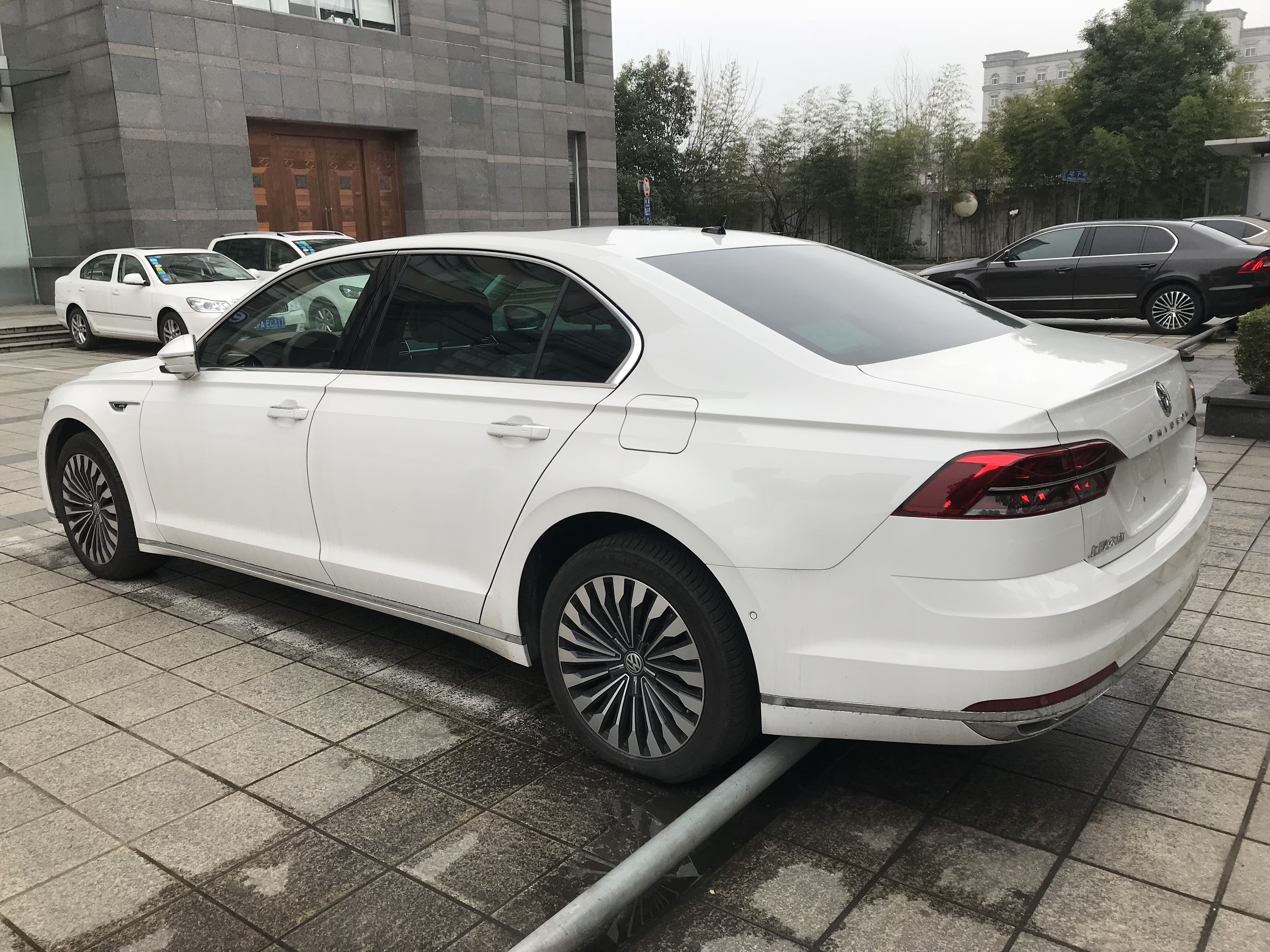 2018 Volkswagen Phideon rear.